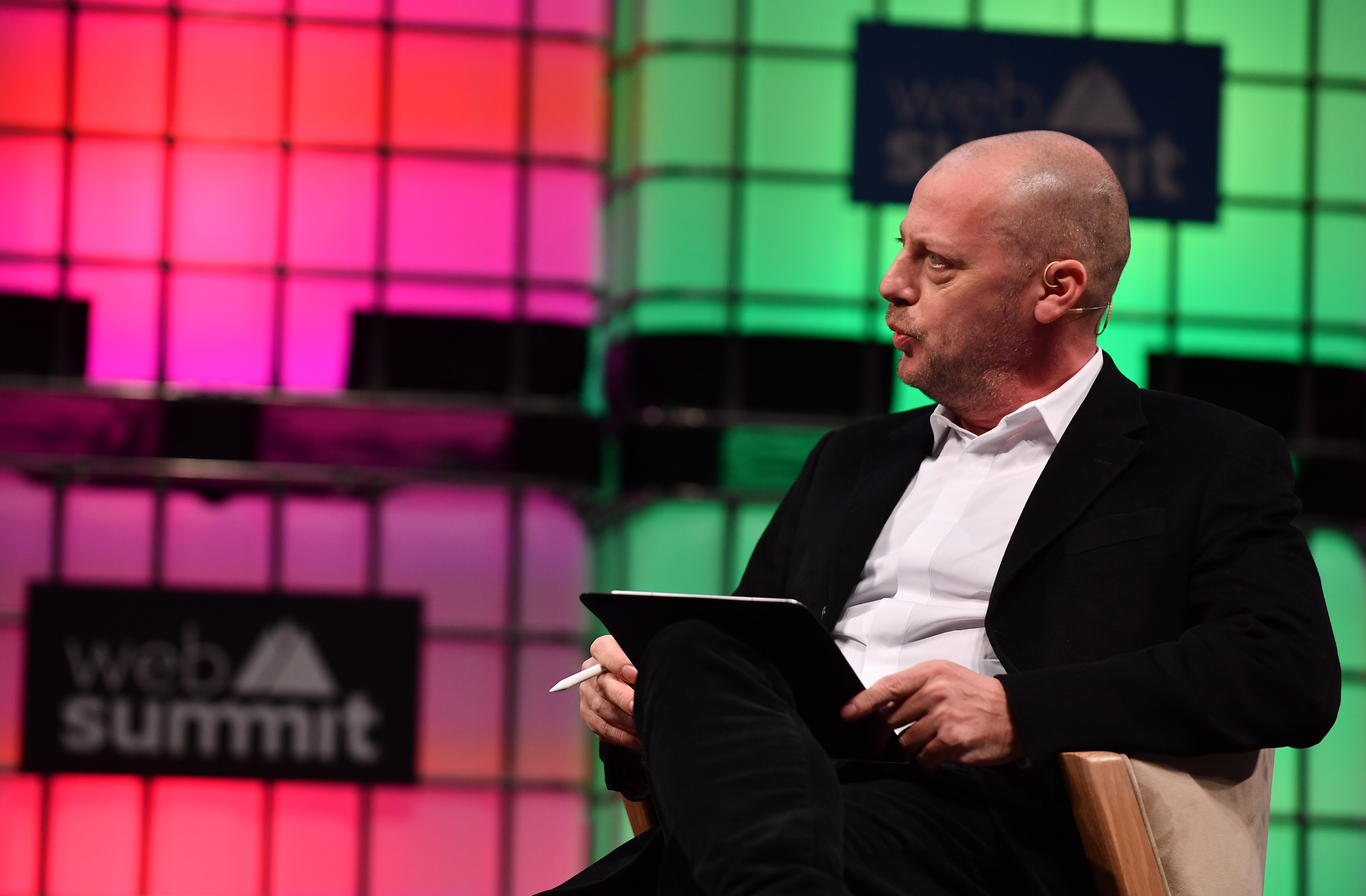 9 November 2017; Matthew Freud, Founder & Chairman, Freuds, on Centre Stage during day three of Web Summit 2017 at Altice Arena in Lisbon. Photo by Sam Barnes/Web Summit via Sportsfile